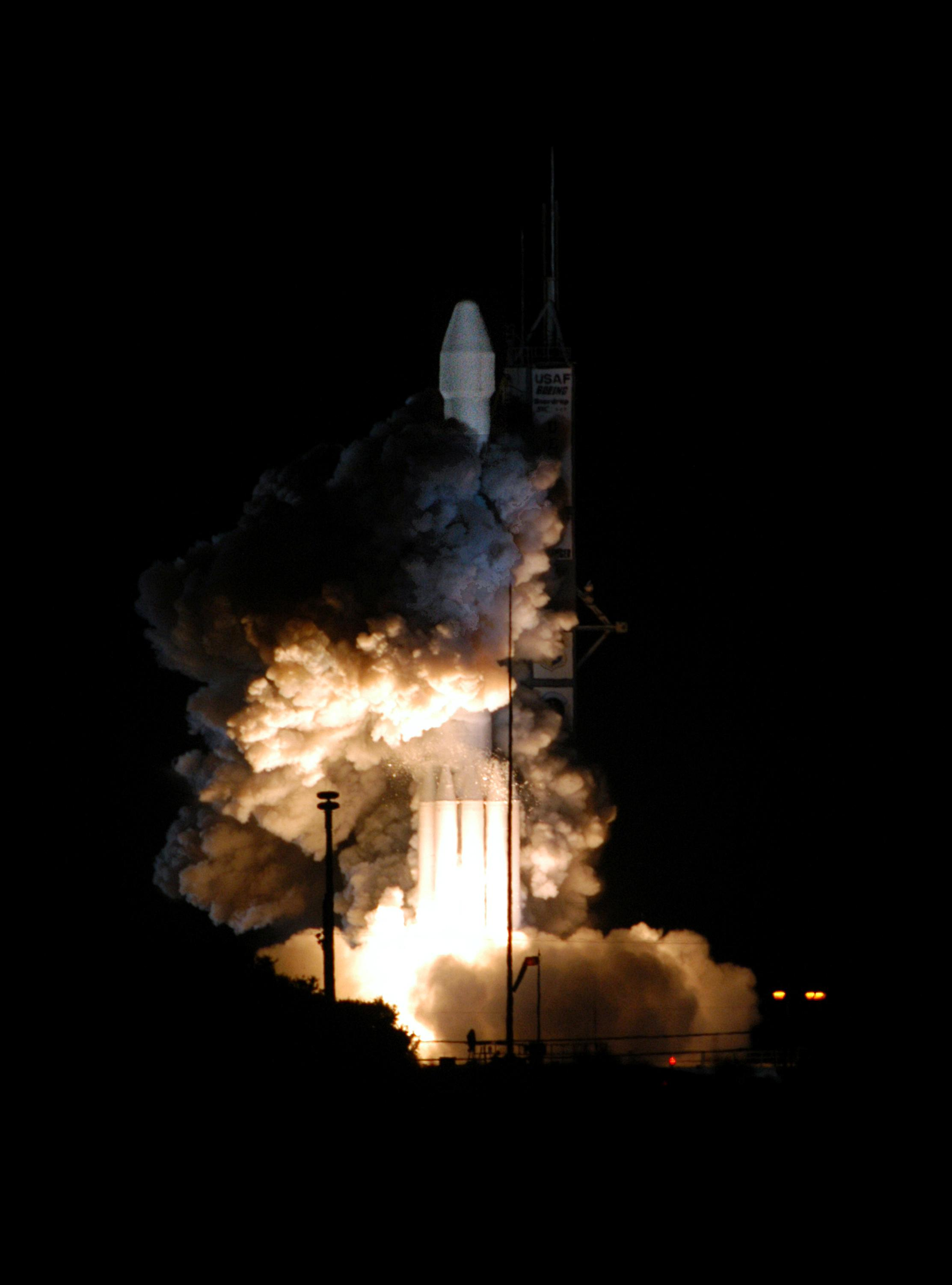 MESSENGER launch on Delta 7925 rocket - The tip of the Boeing Delta II rocket with its MESSENGER spacecraft on top breaks through the billows of smoke below as it lifts off on time at 2:15:56 a.m. EDT from Launch Pad 17-B, Cape Canaveral Air Force Station. MESSENGER (Mercury Surface, Space Environment, Geochemistry and Ranging) is on a seven-year journey to the planet Mercury. The spacecraft will fly by Earth, Venus and Mercury several times to burn off energy before making its final approach to the inner planet on March 18, 2011. MESSENGER was built for NASA by the Johns Hopkins University Applied Physics Laboratory in Laurel, Md.